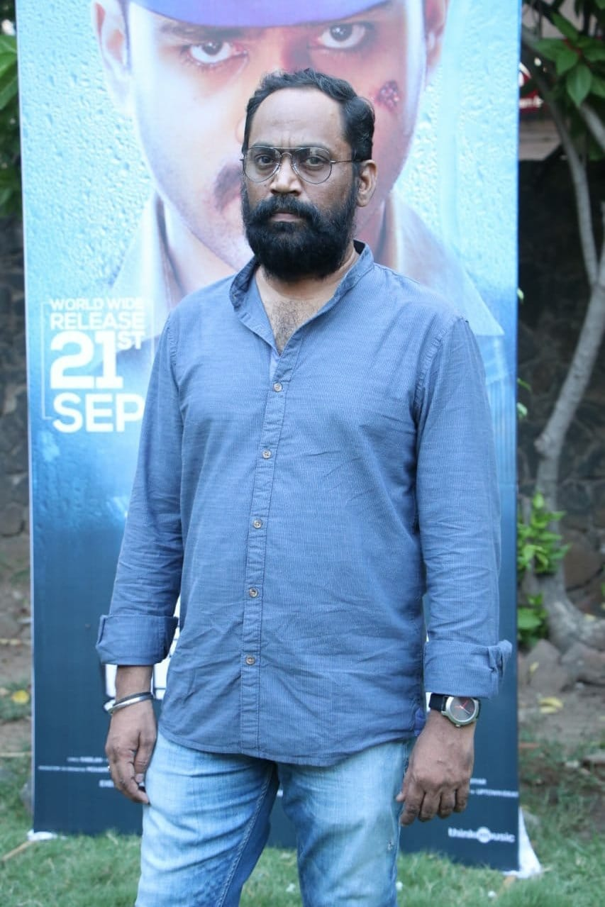 Director Dharanidharan at a press meet for Rajaranguski (2018) , Prasad Lab , Chennai.